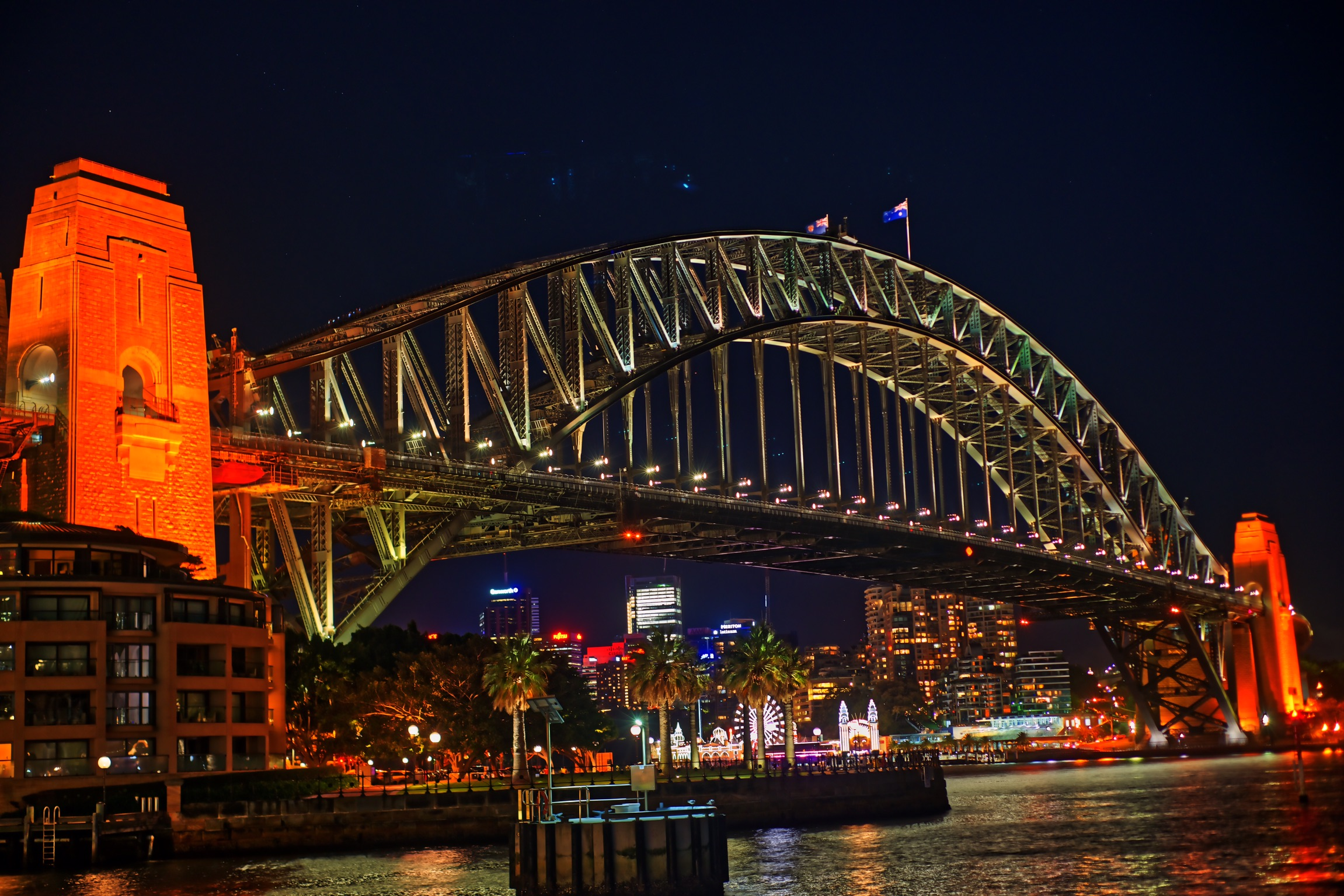 A close view of Sydney Harbour Bridge at night